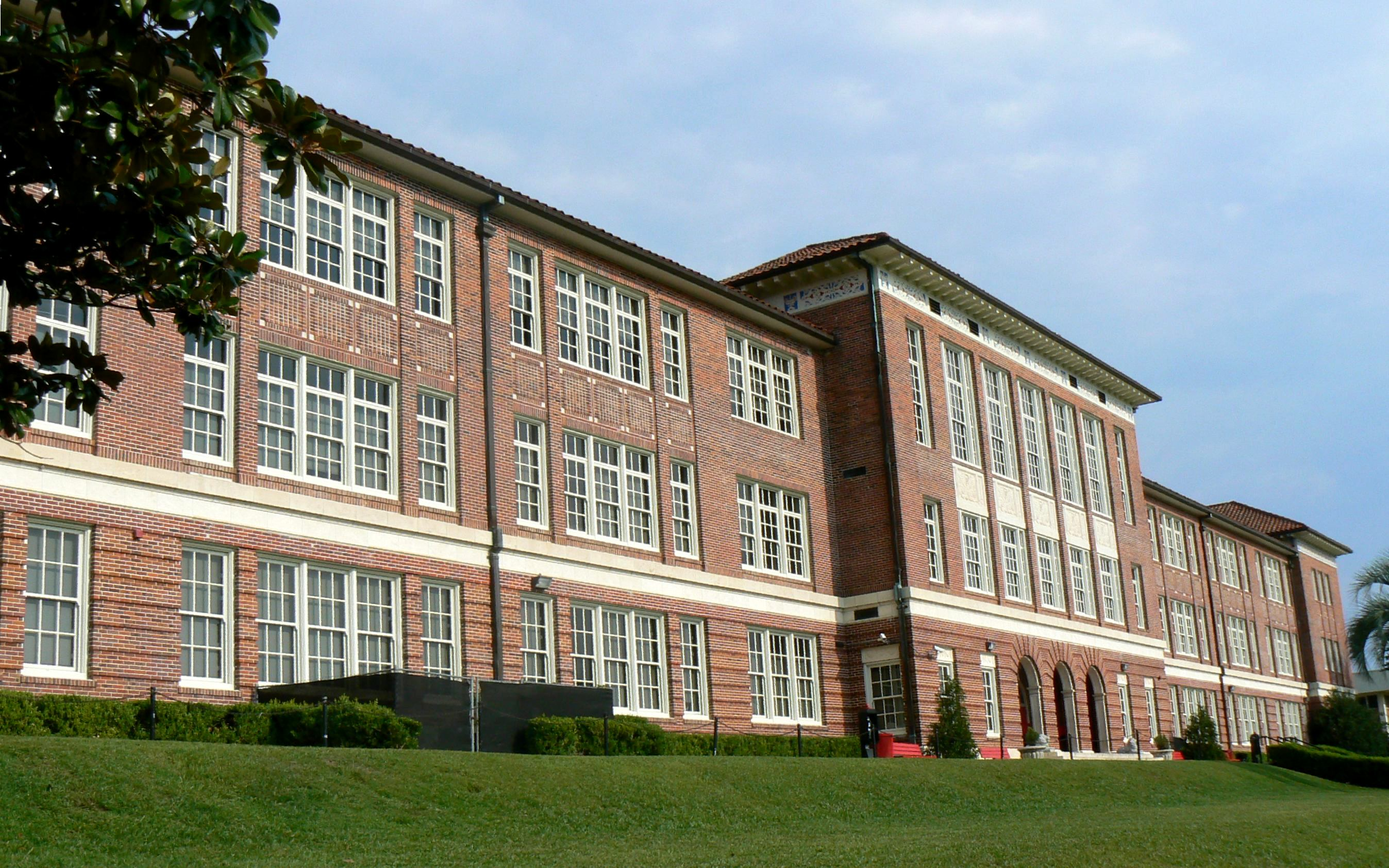 Leon High School, in Tallahassee, Florida. This school building is on the U.S. National Register of Historic Places.